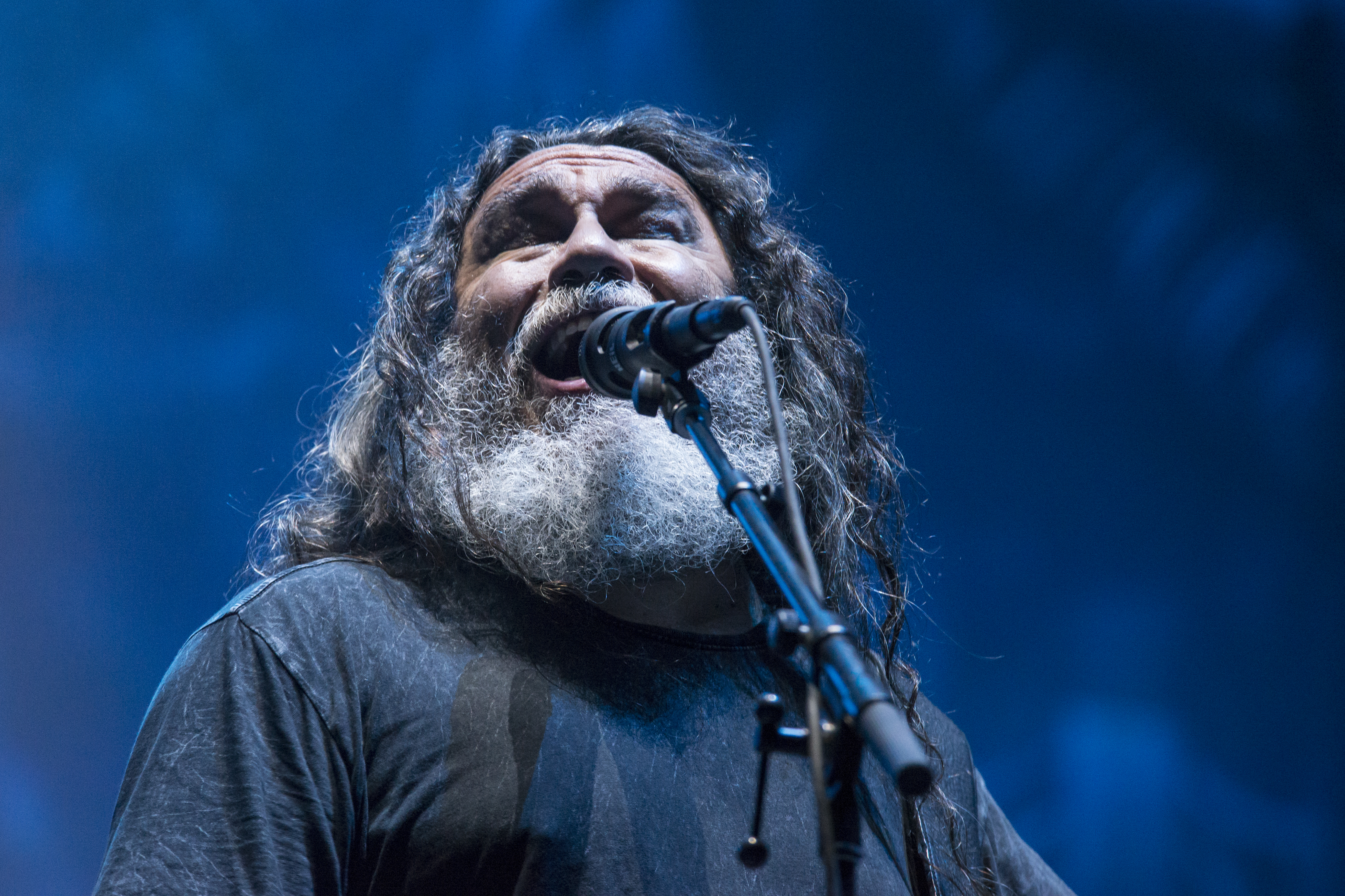 Tom Araya, singer of Slayer, 2017 Hellfest, France.